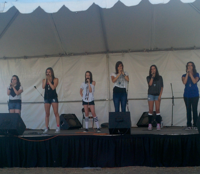 Cimorelli at the Malibu Chili Cook-Off on Sept 3, 2011